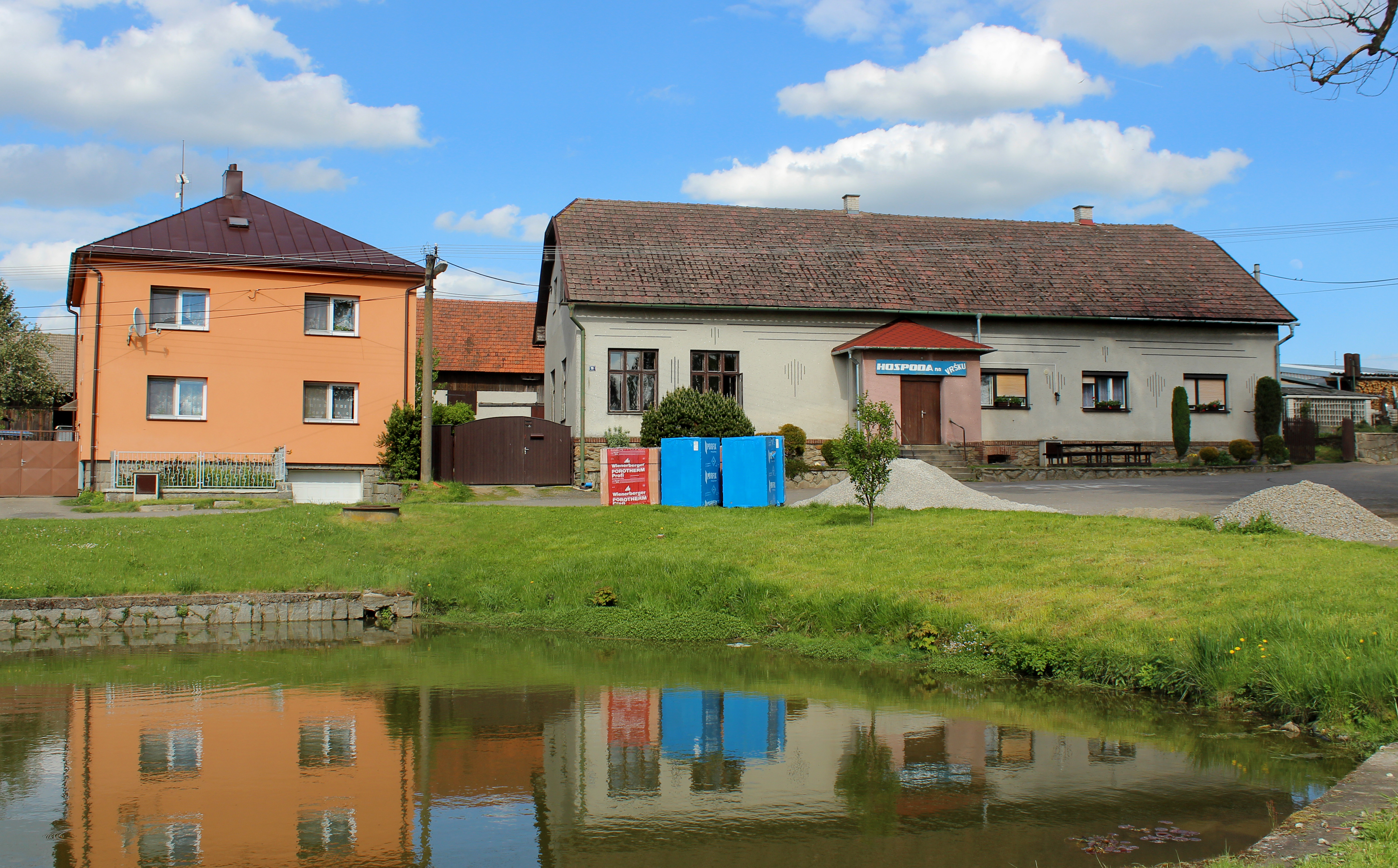 Restaurant in Sirákov, Czech Republic